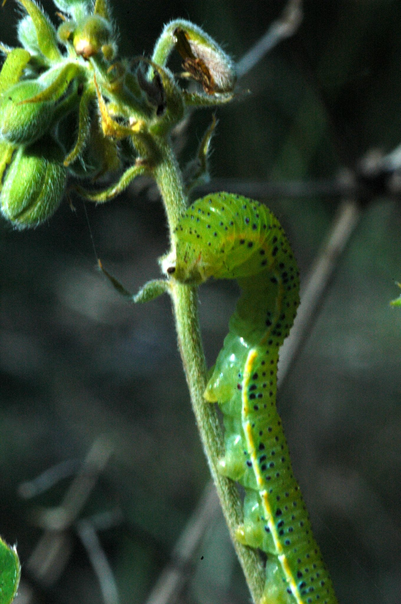 Cloudless Sulphur Caterpillar (Phoebis sennae)